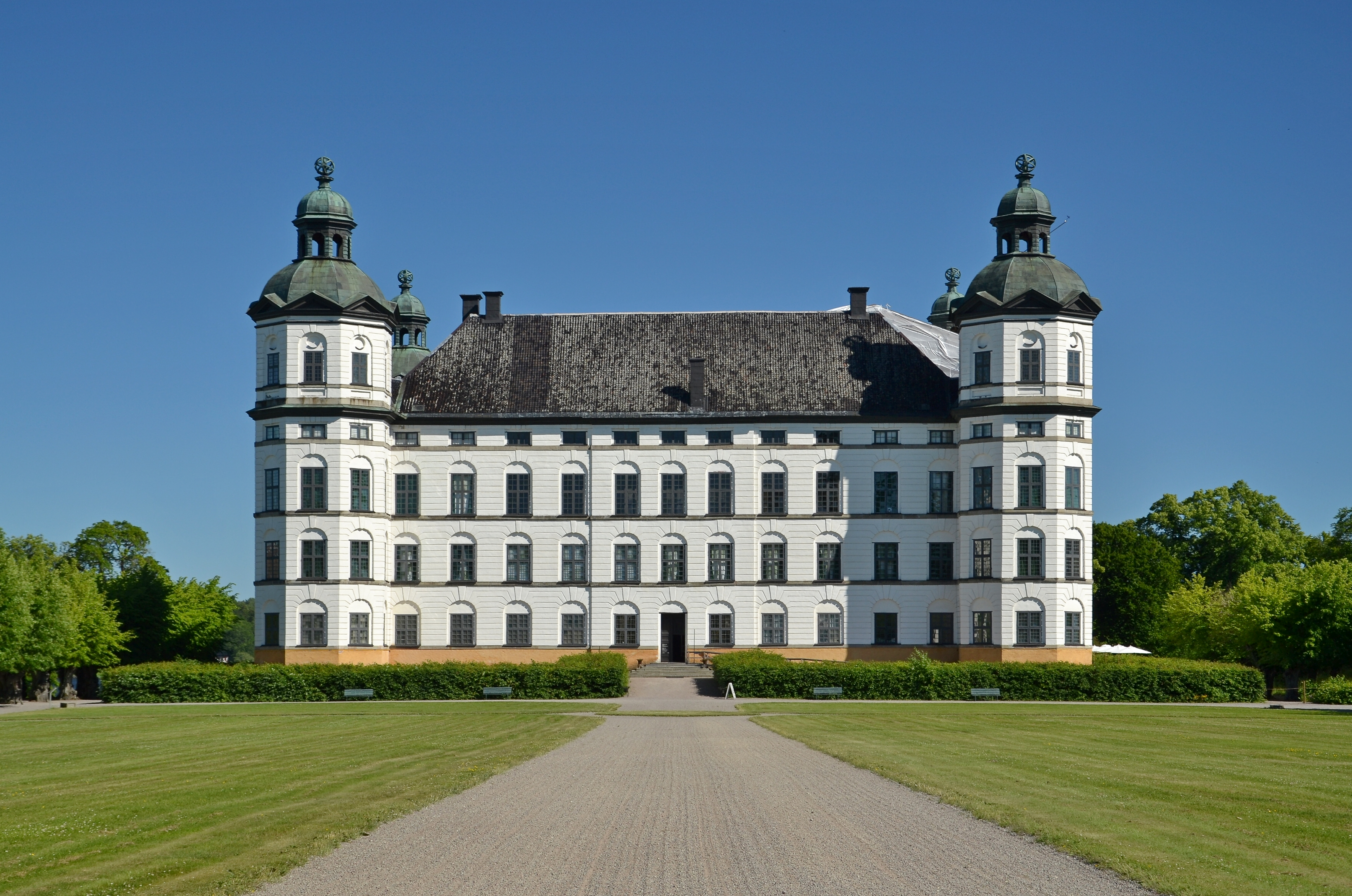 Skokloster castle, Sweden